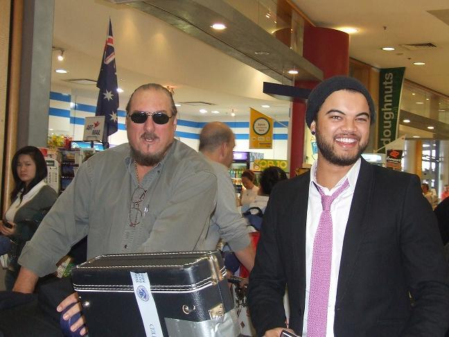 Guy Sebastian Meeting Steve Cropper at the airport the day The Mgs arrived in Australia for his tour